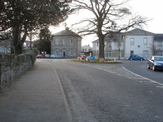 Eglinton village The junction of Broadbridge Road with the main street in Eglinton. In the background is the bank and new flats.